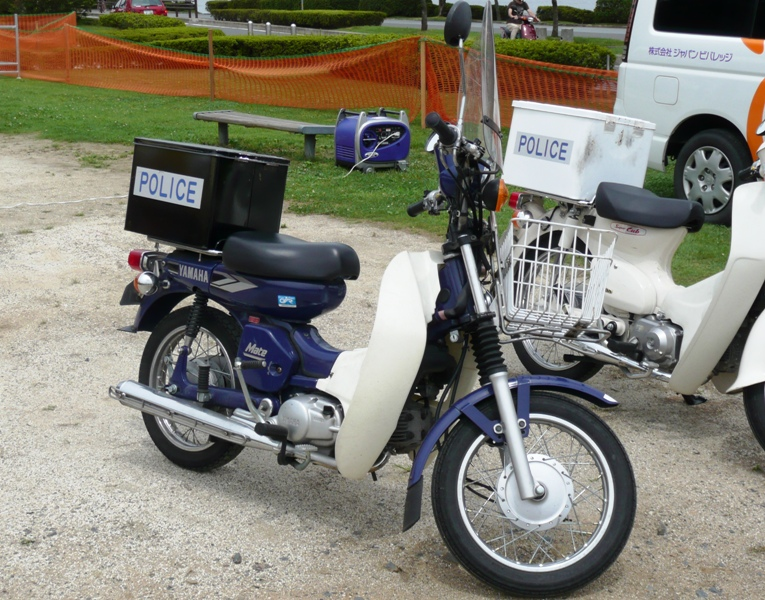 Yamaha Town Mate T90D police motorcycle in Japan.